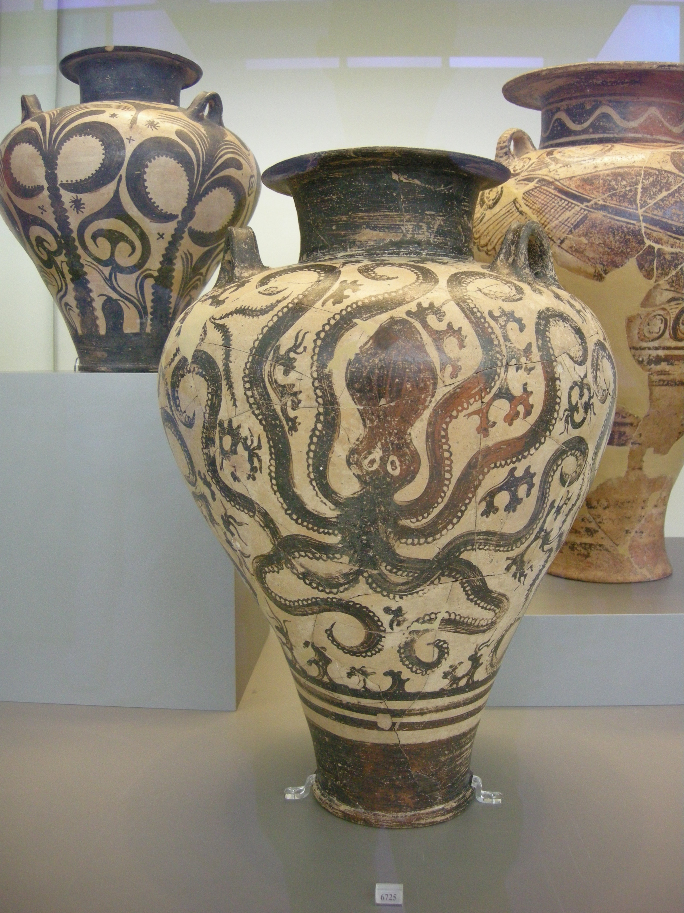 Vase from mycenaean cemetary at Prosymna, Argos, grave 2, 15 cent BC